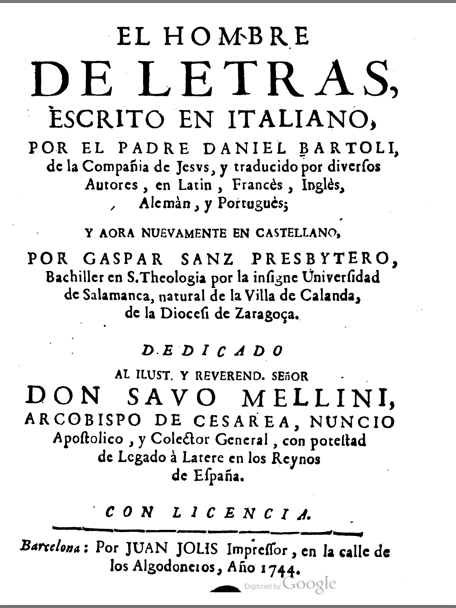 Spanish translation of Daniello Bartoli Huomo di lettere